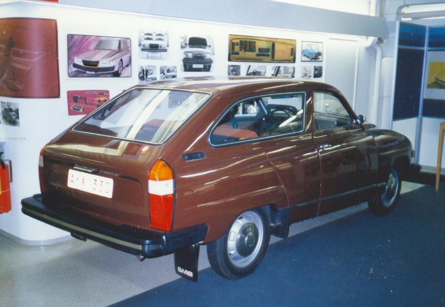 SAAB 98 prototype (del) (cur) 20:28, 17 April 2006 . . Ballista (Talk) . . 913x631 (325485 bytes) (my own photo)